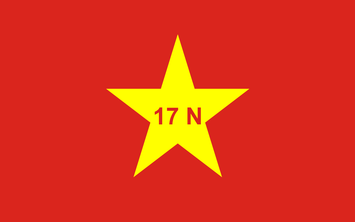 Flag of the Greek far-left militant group Revolutionary Organization 17 November.